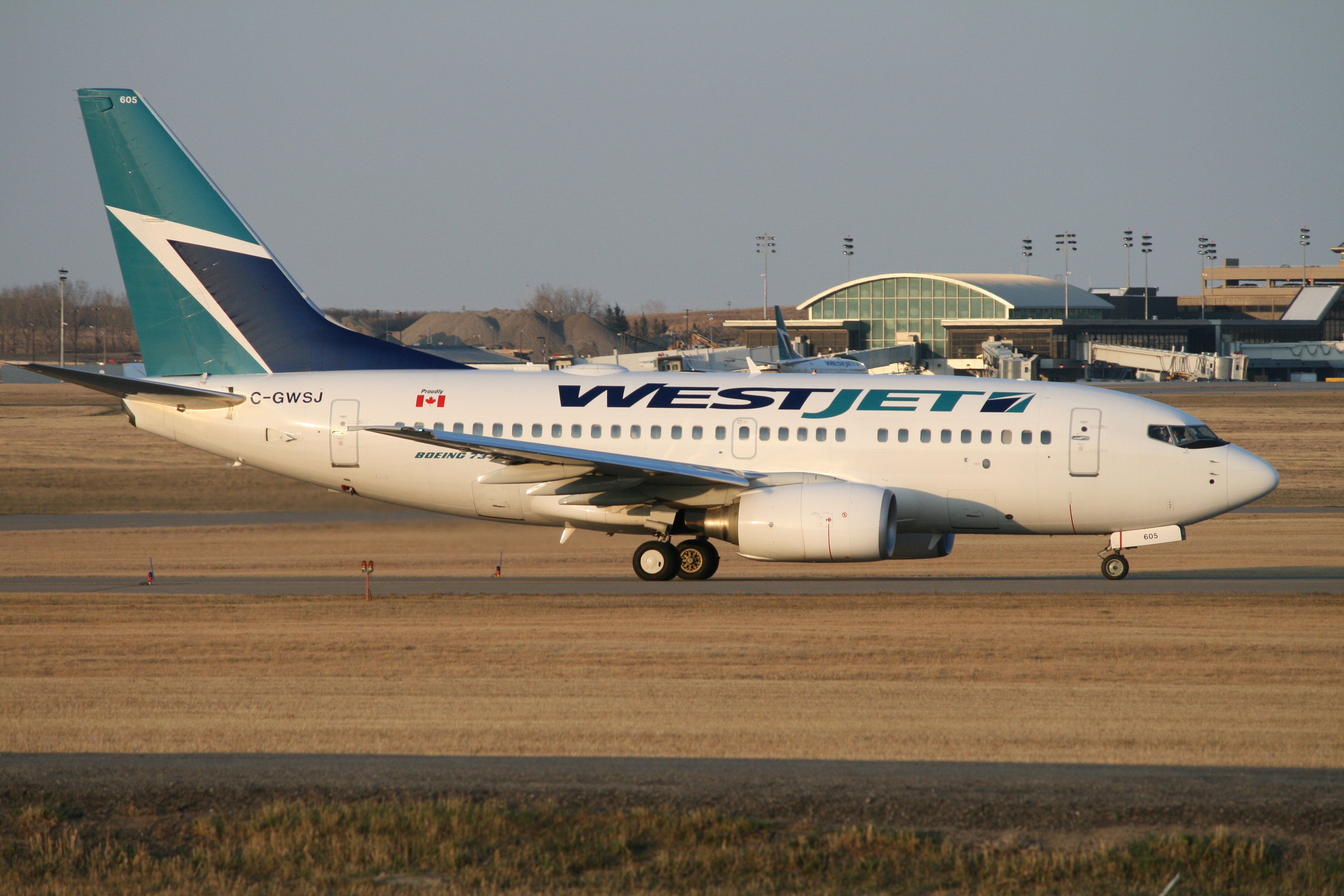 Had no idea when I took this picture that one day I would work for WestJet, let alone fly jump seat on this bird from YYC to YYJ. A fact about WestJet is they were going to be the first 737-600NG operator to install winglets on thier aircraft but when they looked at the cost vs. savings factor it did not turn out to be a feesable option for the short haul flights they use the 600 series on. Only $400 000/winglet!